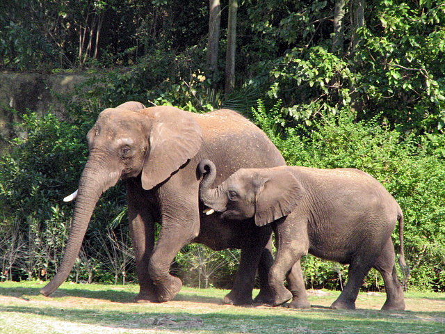 Elephants at the Kilimanjaro Safari in Disney's Animal Kingdom, in Orlando, Florida.